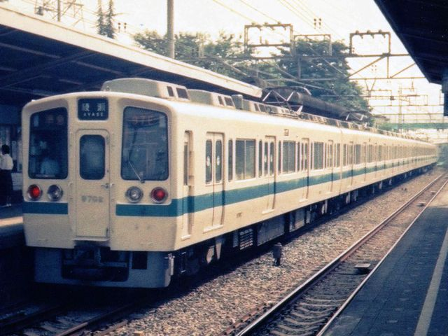 Odakyu Electric Railway Company, EMU Type 9000. Semi-Express bound for Ayase. 1988年頃撮影 At Setagaya-Daita Sta. Photo by Cassiopeia_sweet.